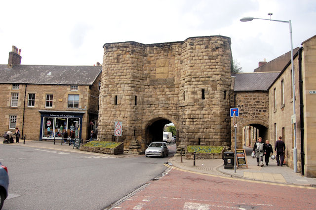 The Bondgate Tower This is part of the old wall around Alnwick